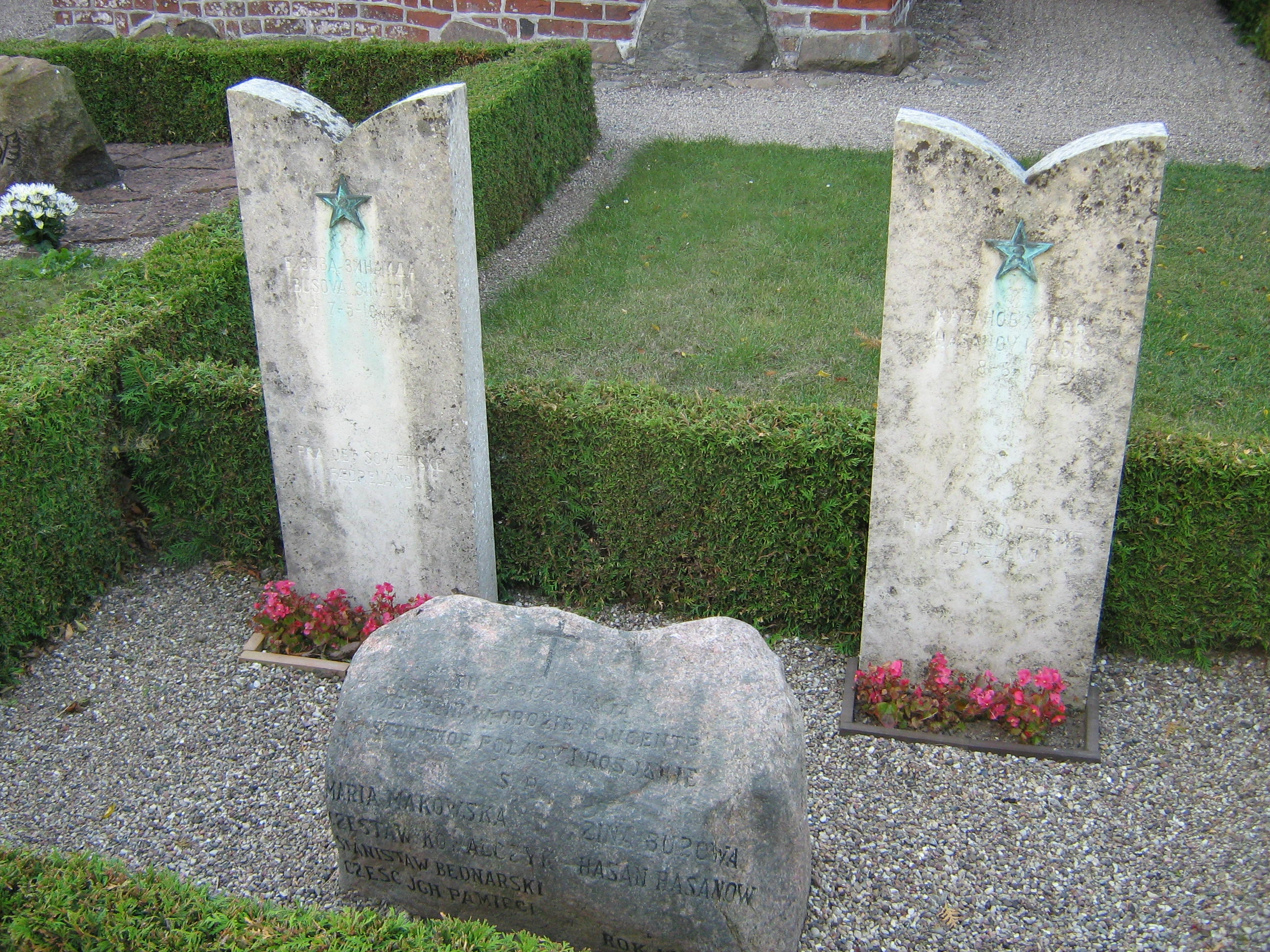 Graves of Stutthof prisoners who died in Klinthom Havn, Møn, in May 1945 after arriving on a barge